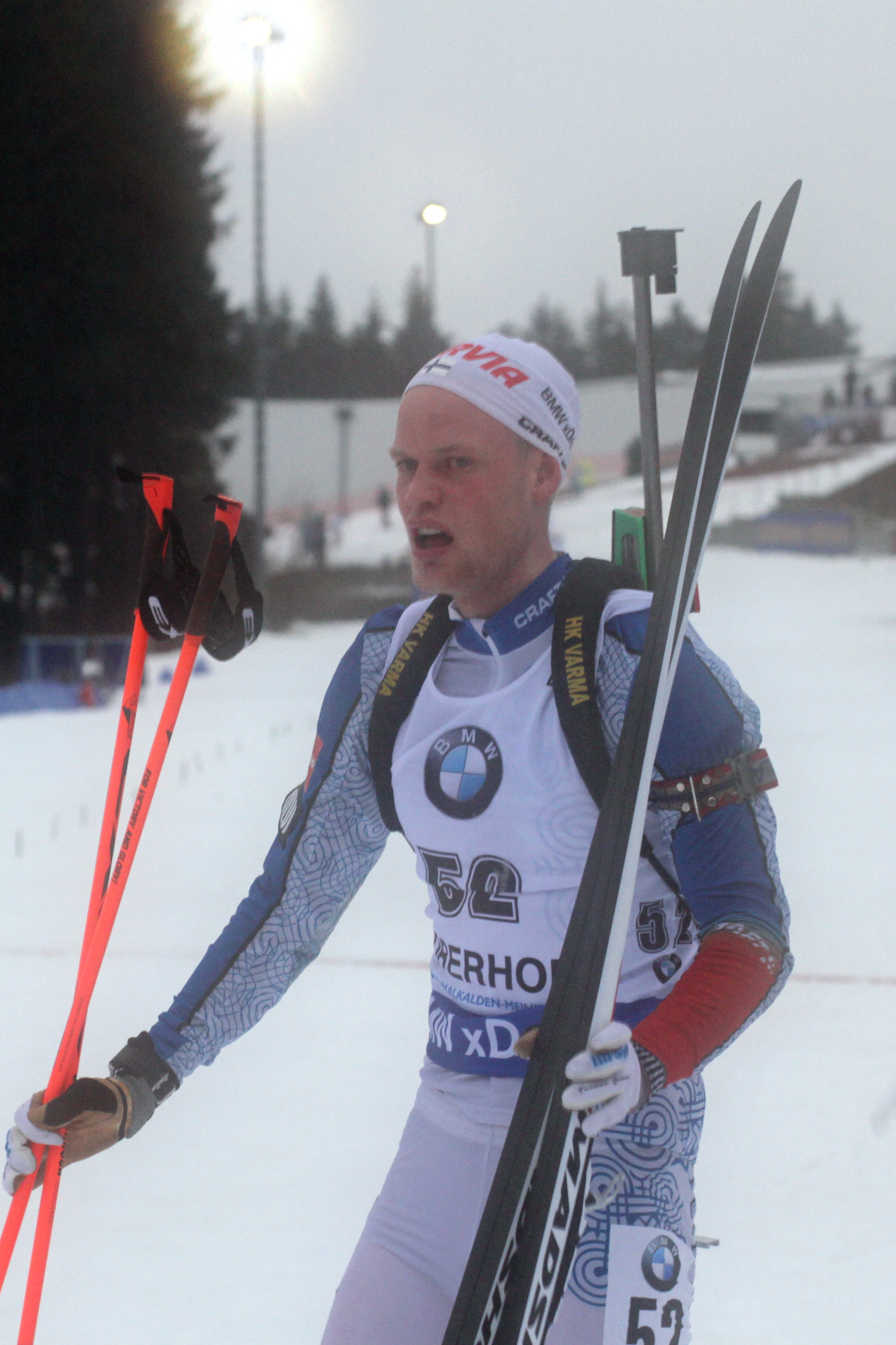 2018 Oberhof Biathlon World Cup - Sprint Men